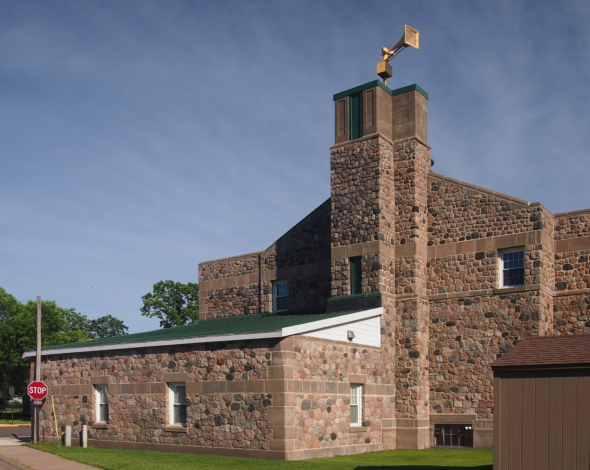 Rear of Deerwood Auditorium showing fire station garage and alarm tower, 27 E Forest Rd, Deerwood, Minnesota, USA. Viewed from the northwest.